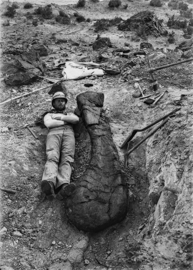 Elmer S. Riggs’ assistant Menke lying by Brachiosaurus altithorax humerus 1900 Neg CSGEO3934 picture taken by Elmer Riggs, courtesy The Field Museum in Chicago